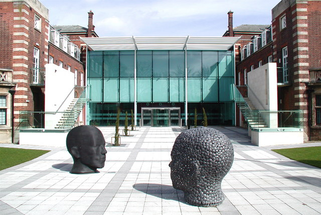 "Moving Matter" by Joseph Hillier Moving Matter, a 2007 sculpture by Joseph Hillier outside the Esk Building (Logistics Institute) at the University of Hull.